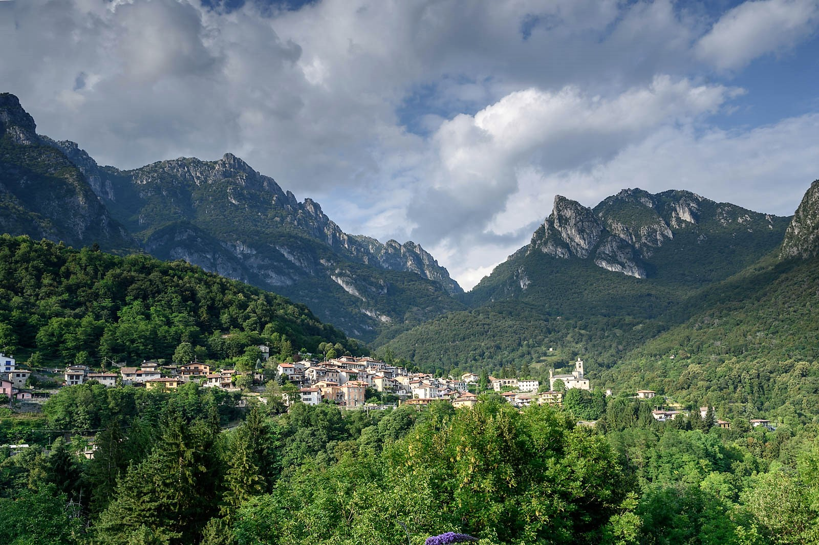 Village Puria, Lombardia, Italy